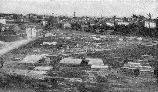 V05p577002 Gaza